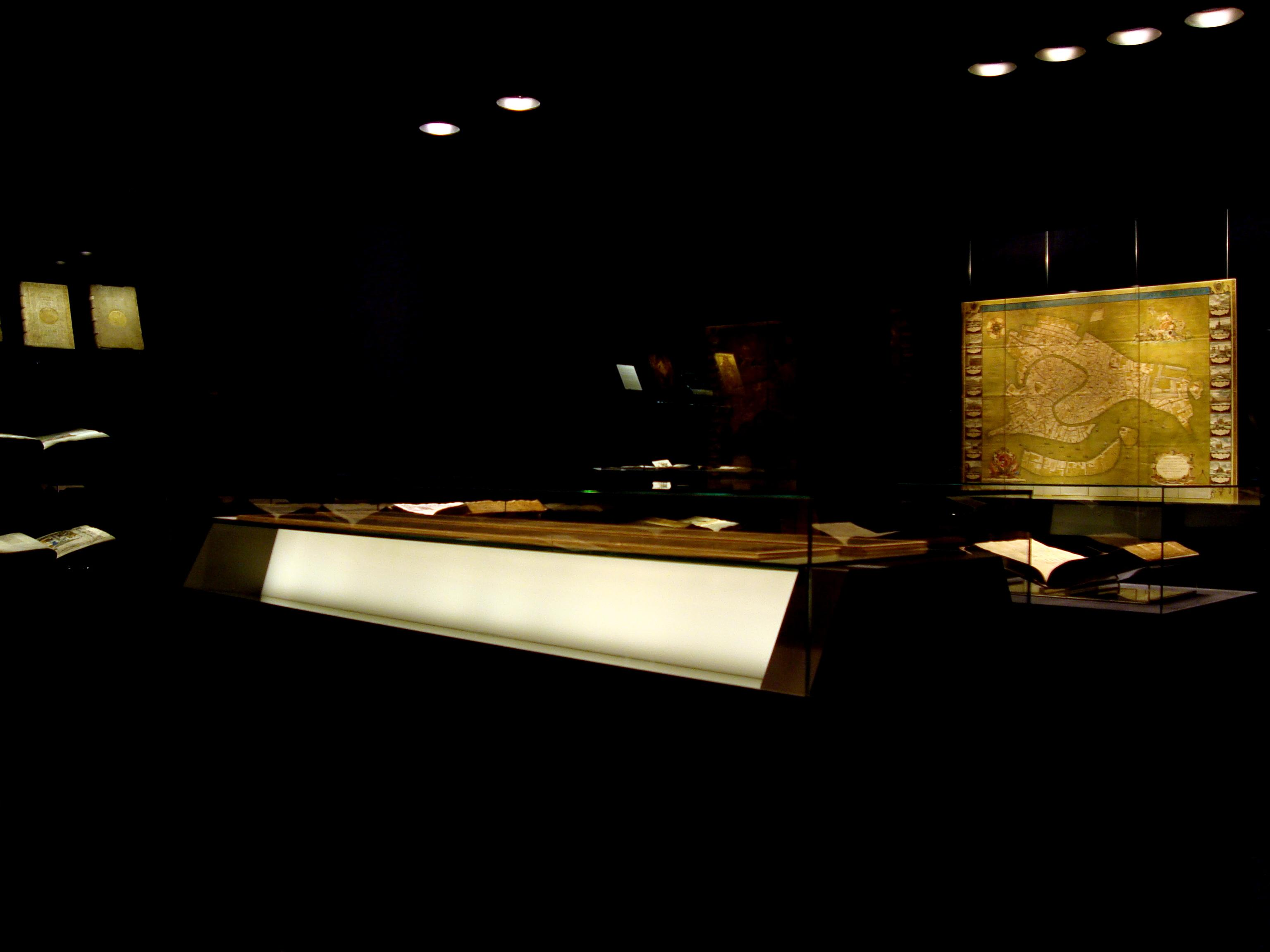 The indoor area of the SLUB.